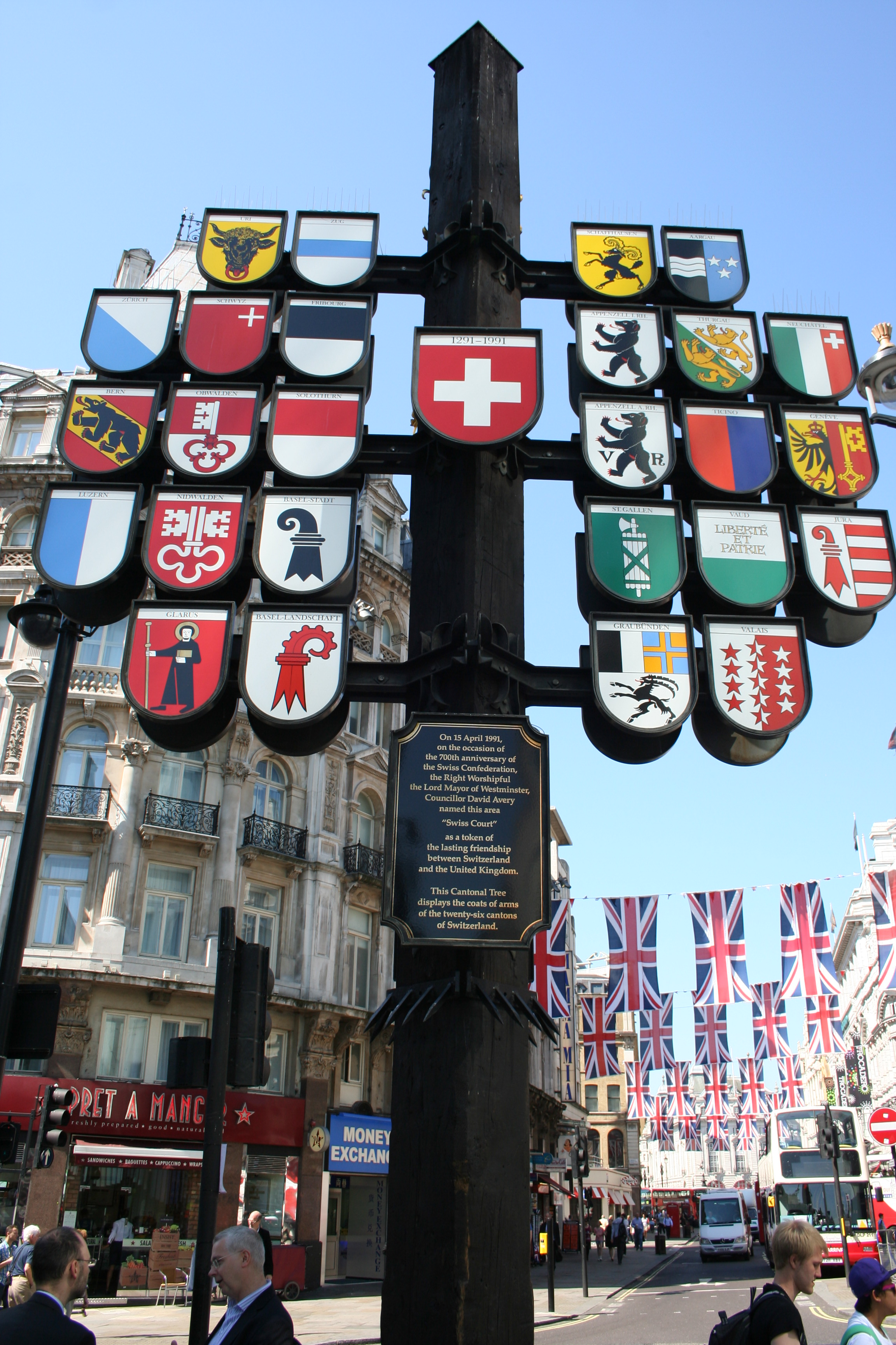 The Cantonal Tree erected just off Leicester Square, London, England to celebrate the friendly relations between Britain and Switzerland. The sign on the cantonal tree reads: "On 15 April 1991, on the occasion of the 700th anniversary of the Swiss Confederation, the Right Worshipful the Lord Mayor of Westminster, Councillor David Avery named this area "Swiss Court" as a token of the lasting friendship between Switzerland and the United Kingdom. This Cantonal Tree displays the coats of arms of the twenty-six cantons of Switzerland." The picture was taken in the final week before Queen Elizabeth II Diamond jubilee.